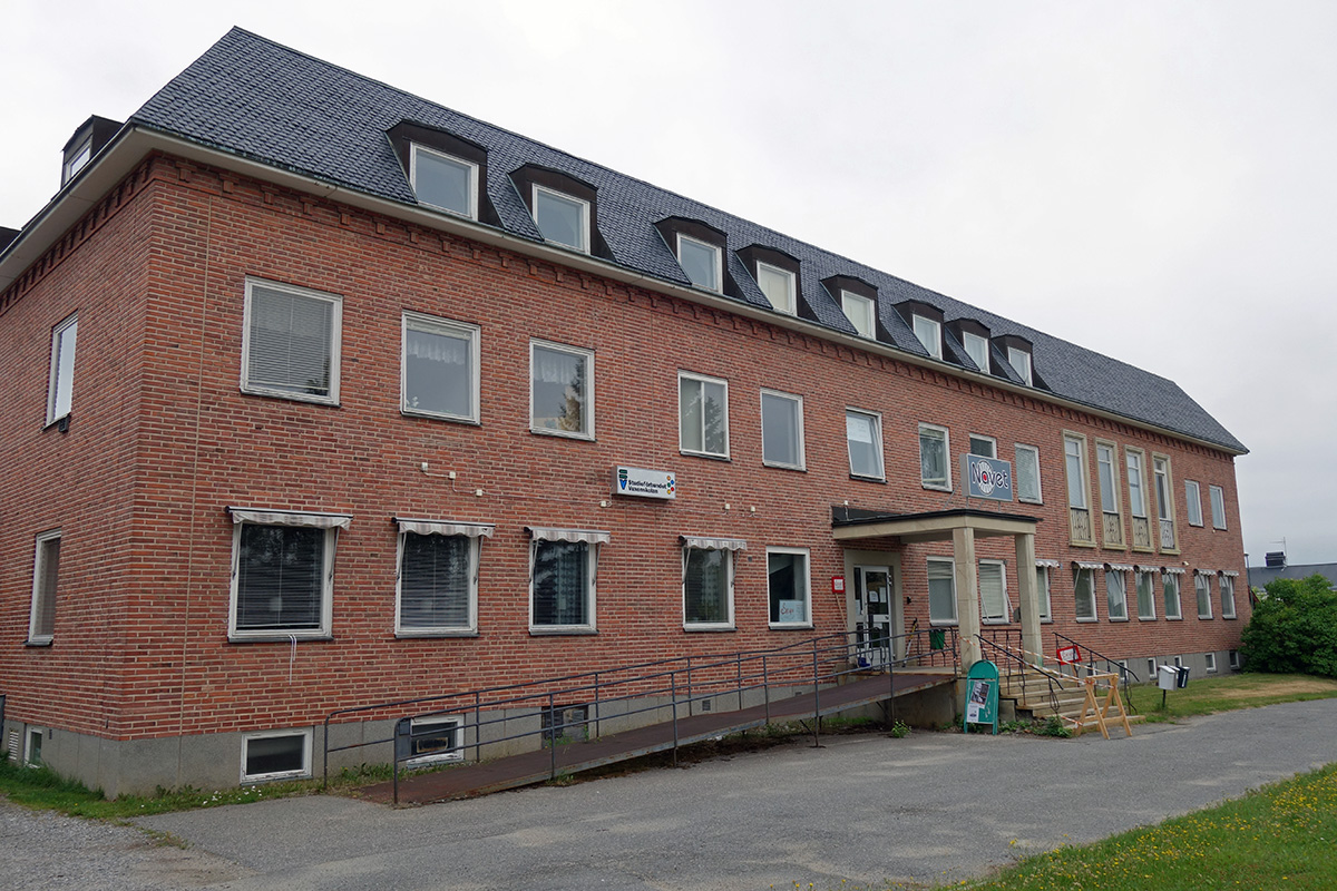 Former Municipality Office in Burträsk, Västerbotten, Sweden